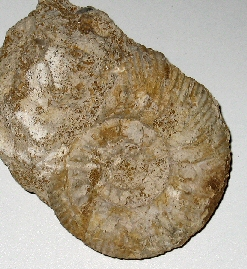 Fossilised Ammonite embedded in rock on beach at Kimmeridge in Dorset